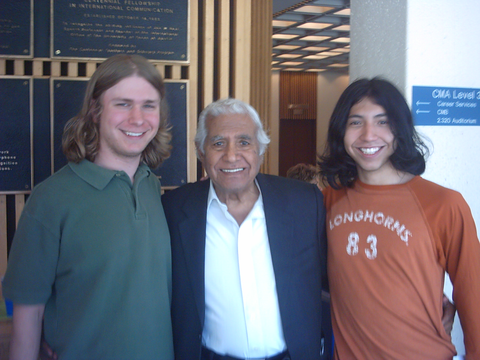 Kumar Pallana and 2 others